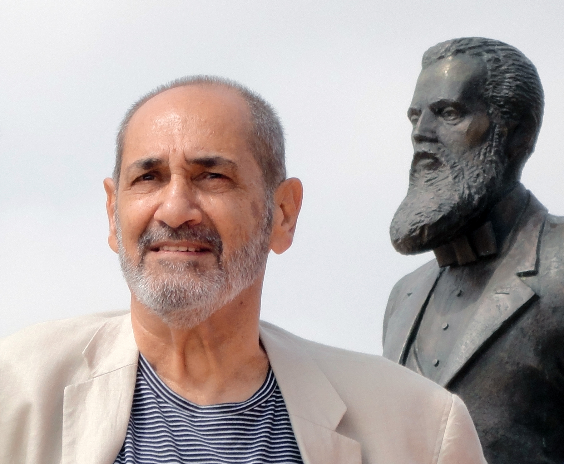 Inauguration of Motti Mizrachi sculpture at Mikveh Israel